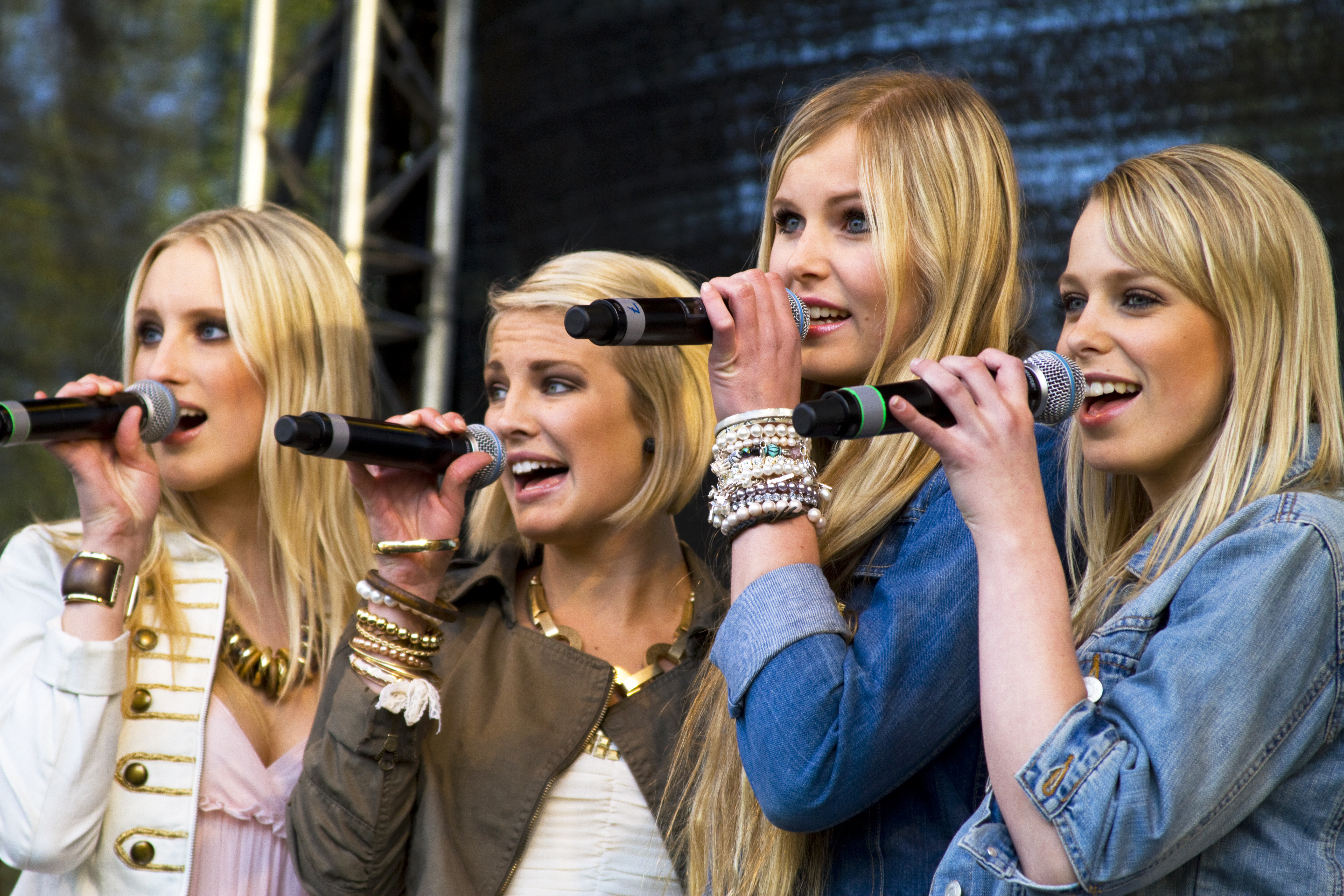 This is a photo of the Swedish etno pop group Timoteij that participated in the Swedish Eurovision Song Contest in 2010.